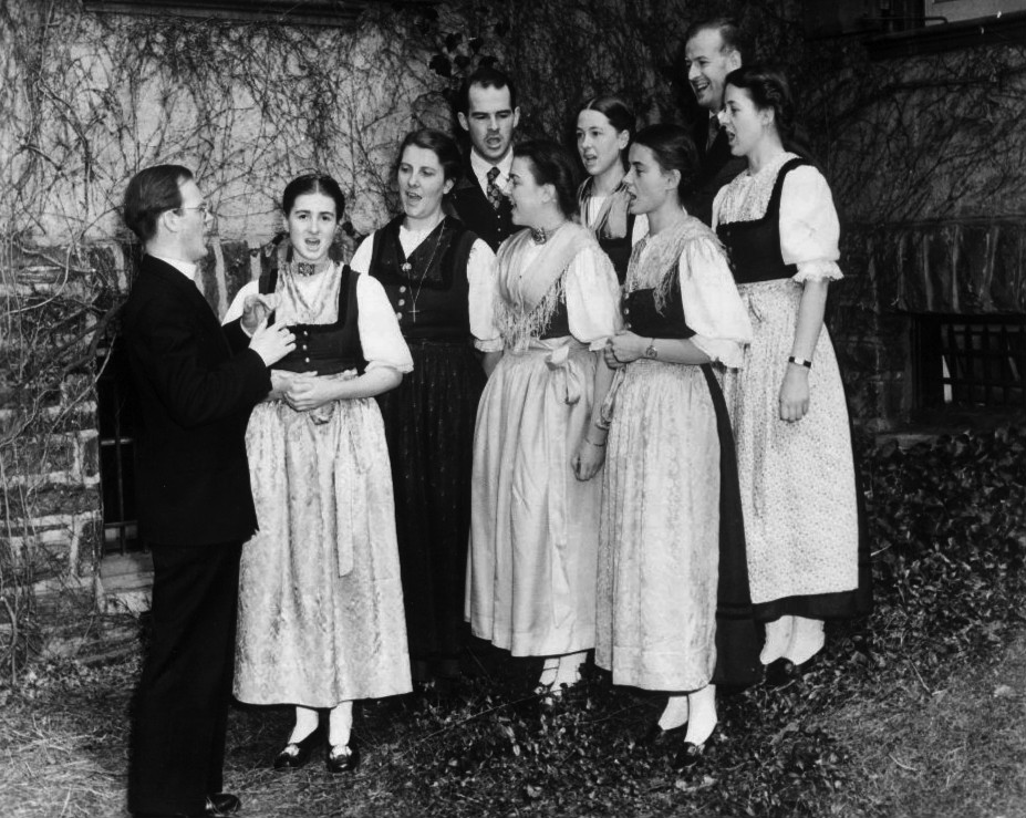 Promotional photo of the Trapp Family Singers. The family was preparing to give a concert in the Boston area in 1941.